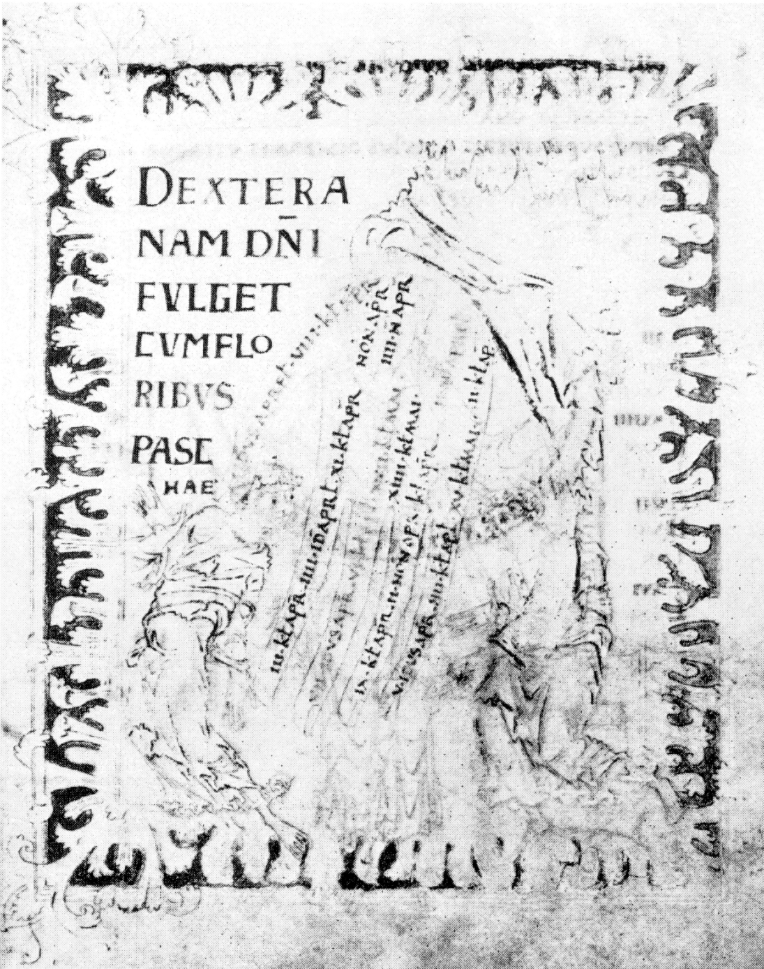 Oxford Library Bodleian Library MS Bodley 579 folio 49r - the Paschal Hand illustration in the Leofric Missal